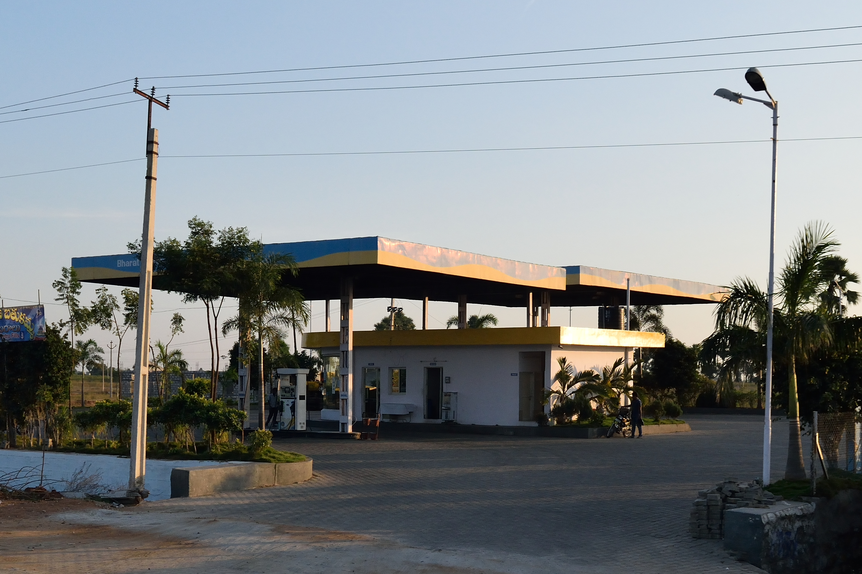 A petrol filling station of Bharat Petroleum Corporation in Nalgonda district in Telangana, India